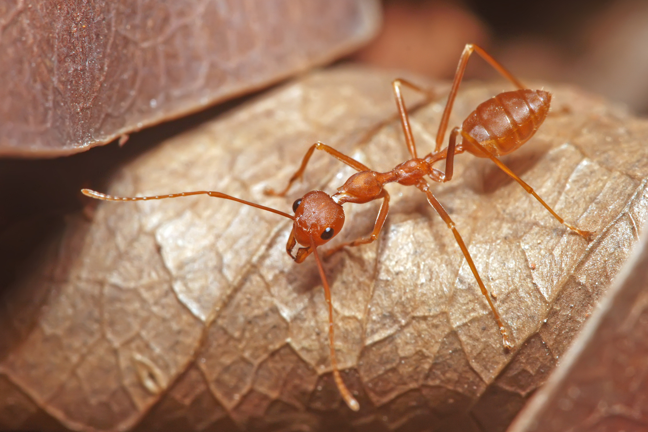 Red Weaver ant, Oecophylla smaragdina in Bangalore, India